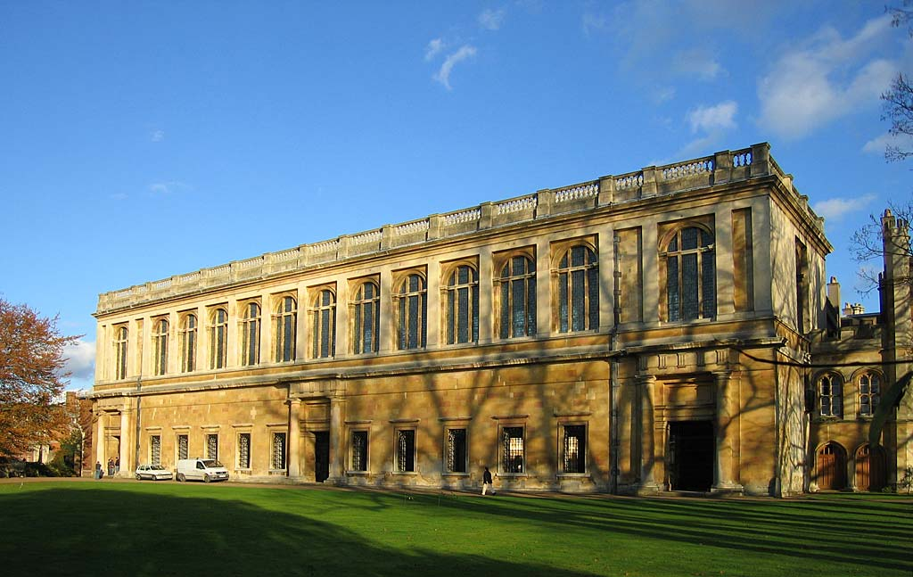 The Wren Library, Cambridge. The library, designed by Christopher Wren in 1676, was one of the first libraries to feature large windows. Prior to this, the high value of books tended to mean they were kept in fortress like, monastic libraries. With the invention of the printing press in the 15th century and book prices falling, Wren thought it would be a good idea to be able to read books in bright natural light. The architecture is deceptive, the ground floor is an open colonnade with a ceiling much lower than implied from the exterior proportions of the building. The body of the library lies between the top of the ground floor open windows and the bottom of the large glazed, upper row of windows. The upper windows then rise above the top of the book stacks to a high roof, making the library a light a lofty room.